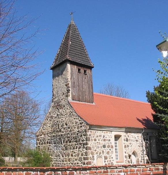 Stonechurch „St. Martin“ in Wörpen, first parts built in 12th century. Wörpen is a municipality in the Nature park Fläming in the district Anhalt-Zerbst, state Saxony-Anhalt, Germany.